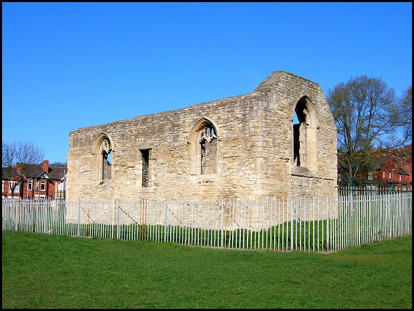 The Abbey on Monks Road in Lincoln was a cell of St. Mary's Abbey at York which belonged to the Benedictine Order. The community at Lincoln consisted of just a Prior and three monks. The religious order was dissolved by Henry VIII who appropriated the lands and the building fell into ruin. At one time standing beside a leafy lane in open fields above the River Witham the Abbey site has been engulfed by the city which during the 19th-century experienced rapid industrial growth and major population expansion which led to large amounts of tightly packed terraced housing being developed in the city's east end.